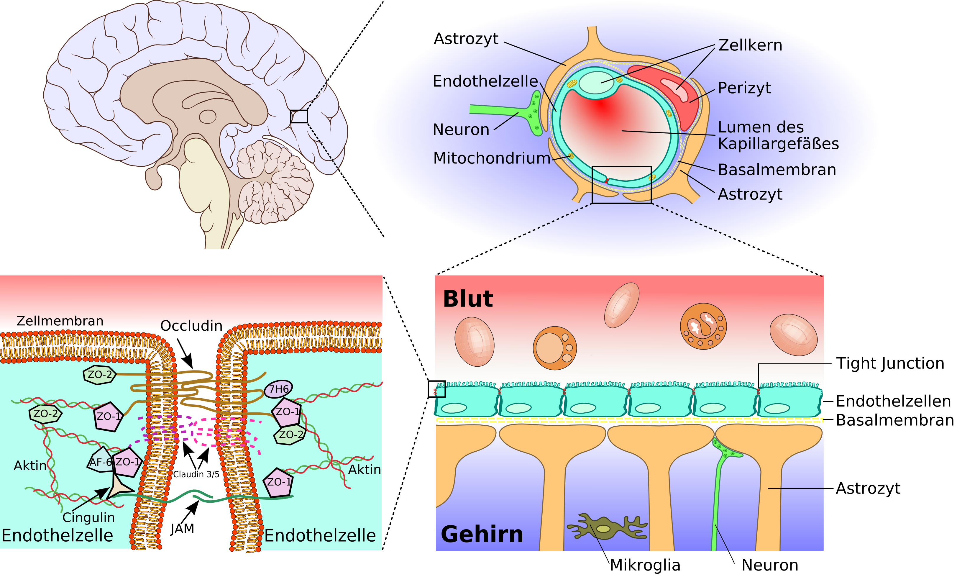 Schematic sketch showing the blood-brain barrier.